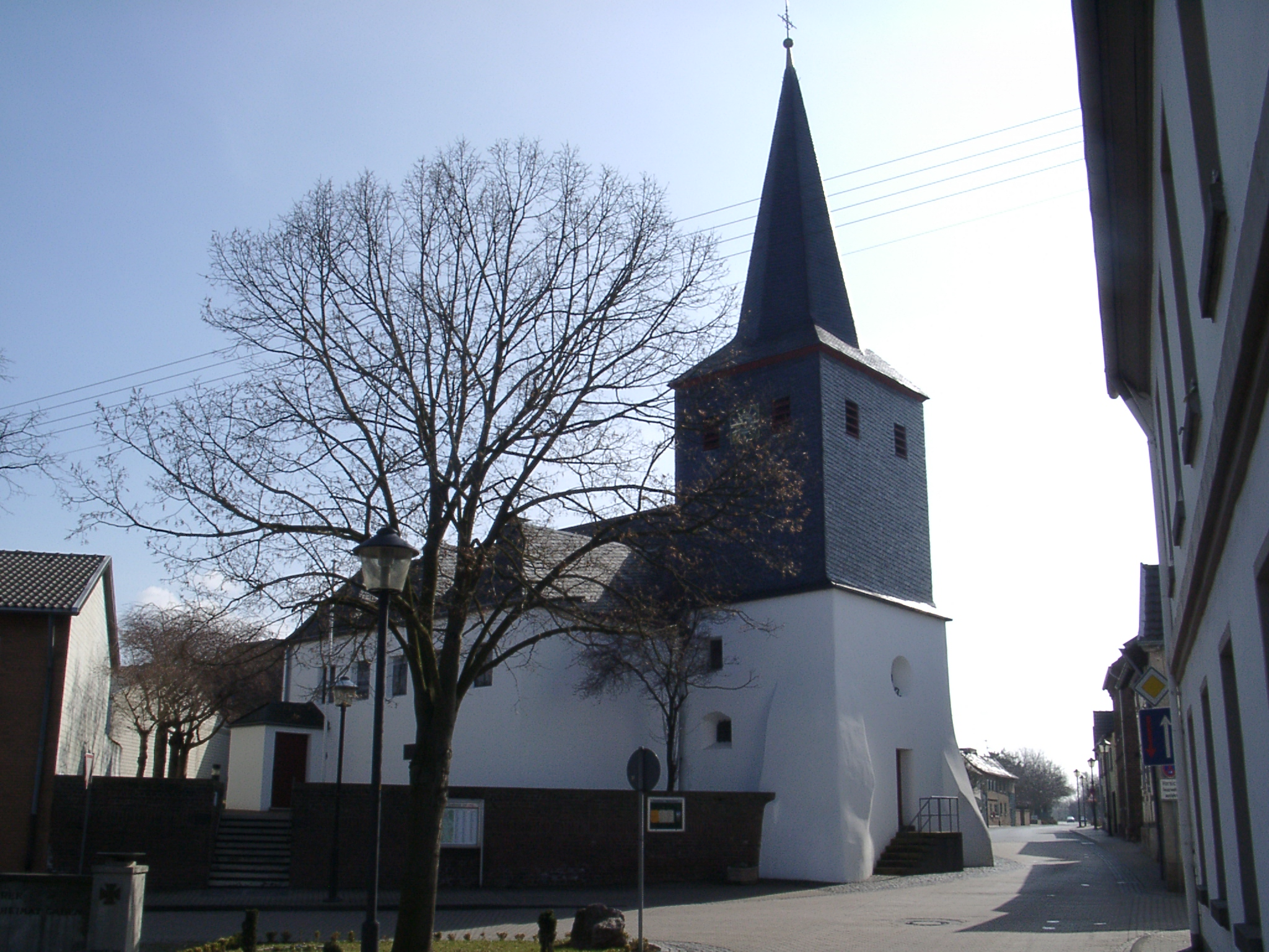 Church St. Georg in Miel, municipality of Swisttal, Germany